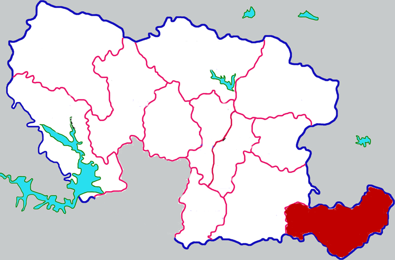 Location of Tongbai county in Nanyang city, China